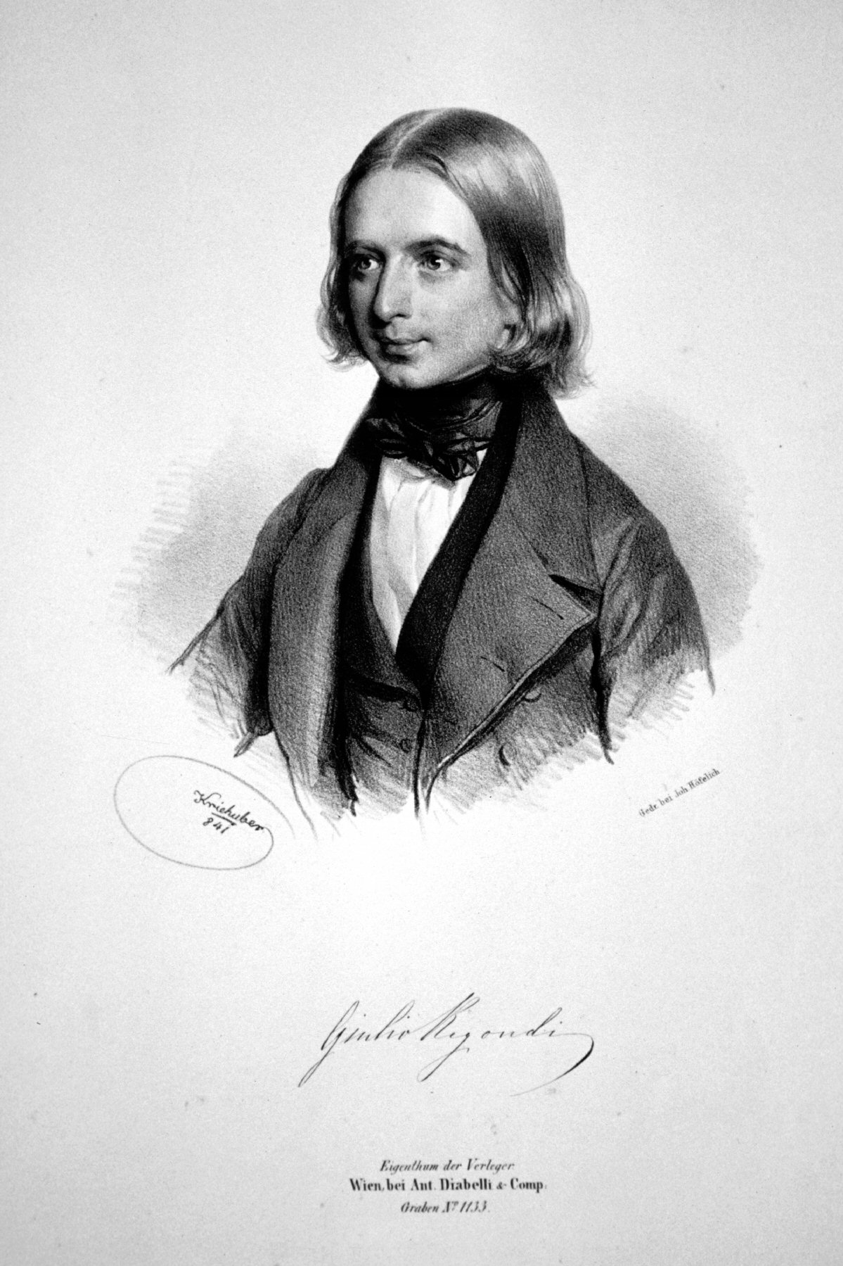 Portrait of Giulio Regondi (1823-1872), Italian guitarist, concertinist and composer